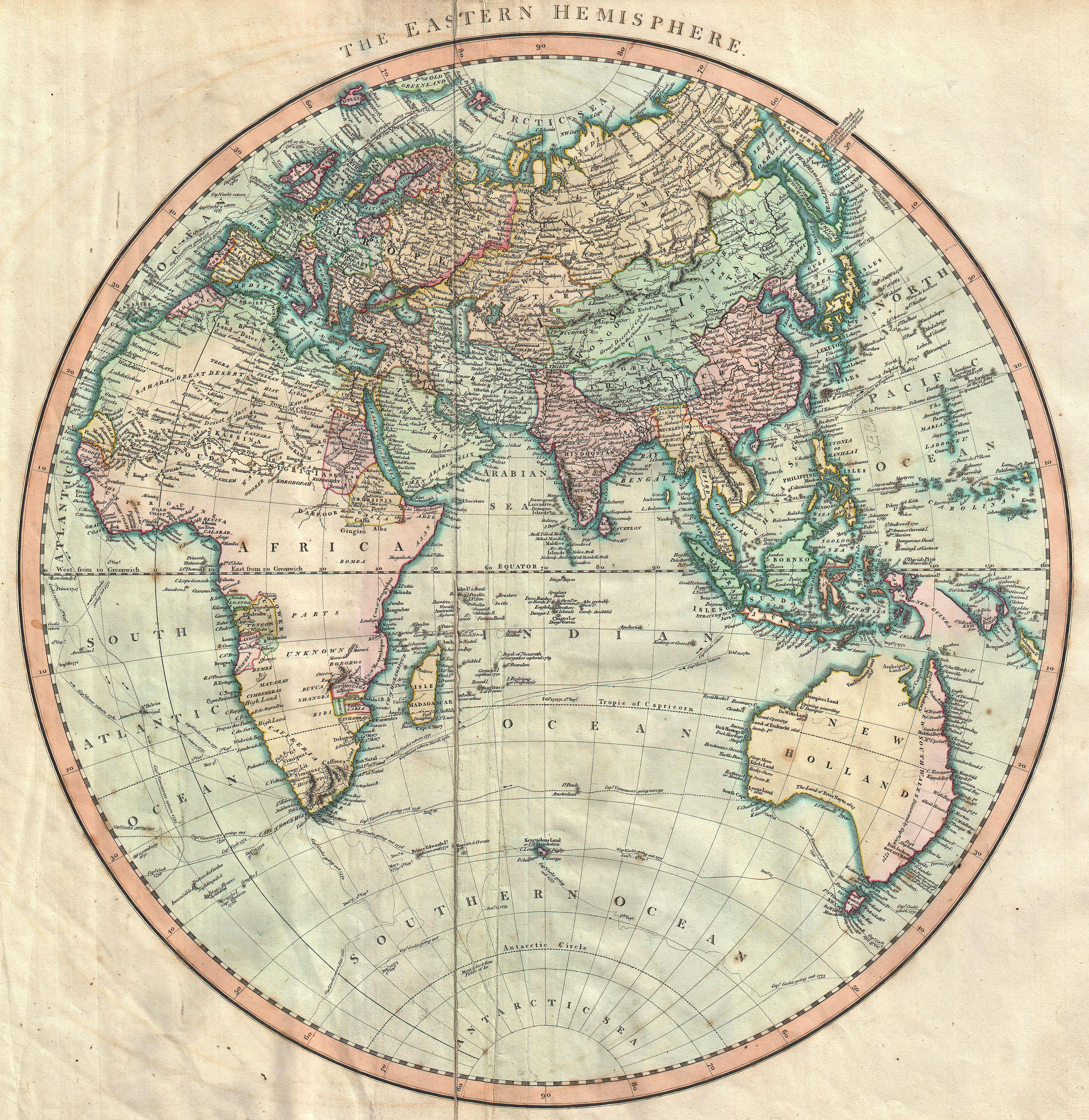 A very attractive example of John Cary’s spectacular 1801 map of the Eastern Hemisphere. Covers the entirety of Europe, Africa and Asia, along with Australia, the Indian Ocean, and parts of Polynesia. Europe is mapped according to early 19th century form. Africa, mostly labeled “Parts Unknown” covers much of the left hand portion of the map. Caravan trails and oases fill the Sahara. Morocco, Egypt, Nubia and Abyssinia are noted. Maps the Portuguese colonies in the Congo as well as their fledgling colonies in east Africa, near Madagascar. These, including the Kingdom Of Monomotapa (Mutapa), have been associated with the legendary Land of Ophir or King Solomon’s Mines. King Solomon’s mines were a kind of Africa El Dorado, and like El Dorado, they were ultimately relegated to the province of myth. On the opposite side of the Map Australia is labeled “New Holland”. The eastern portion is highlighted in red and labeled New South Wales, referencing claims to the land issued by Captain Cook in 1770. The northern parts of Australia as well as parts of New Guinea and the East Indies are left with uncompleted borders suggesting their unexplored state. The routes and discoveries of important explorers are noted throughout and crisscross the seas. All in all, one of the most interesting and attractive atlas maps Eastern Hemisphere to appear in first years of the 19th century. Prepared in 1801 by John Cary for issue in his magnificent 1808 New Universal Atlas.